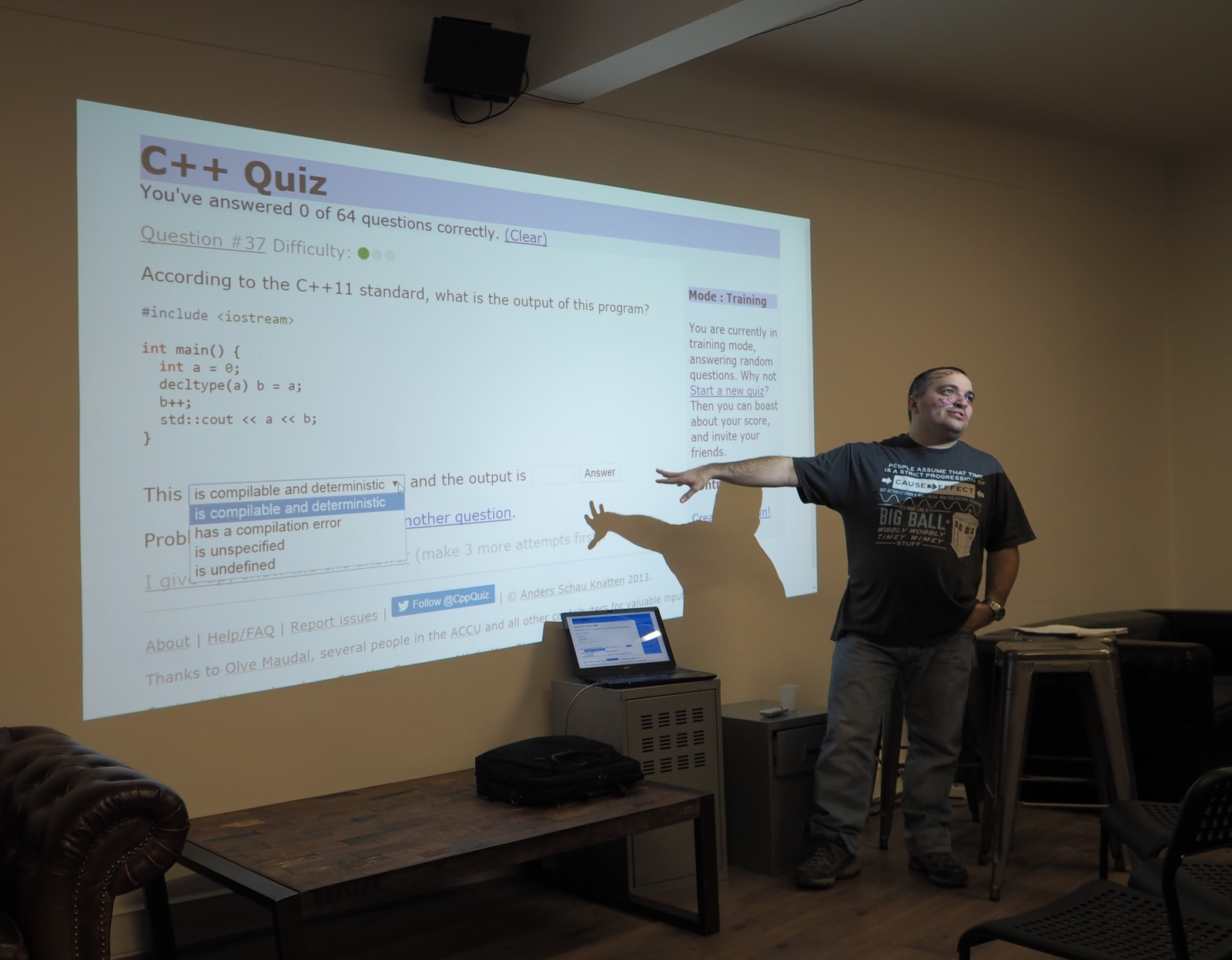 Joel Falcou animating Champion++ at C++ FRUG event #10 import in Paris 21/Jan/2016